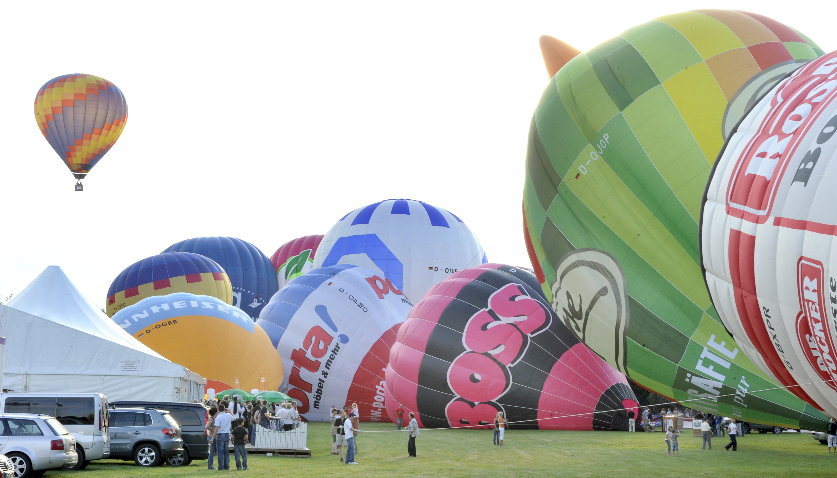 The Saxonia International Balloon Fiesta in 2009 : Many hot-air balloons taking the air.